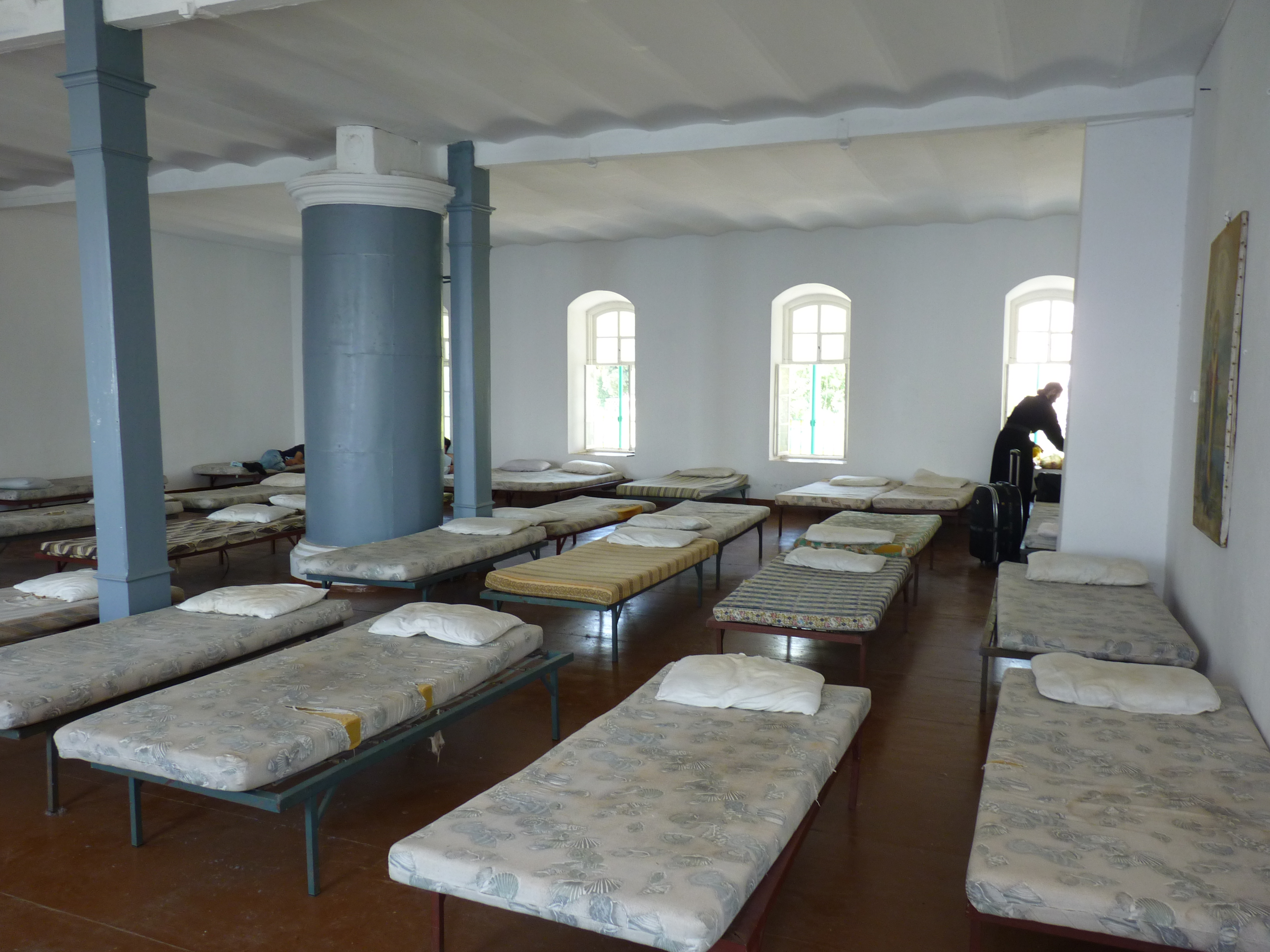 Hostel for pilgrims in Agiou Panteleimonos monastery, Mount Athos